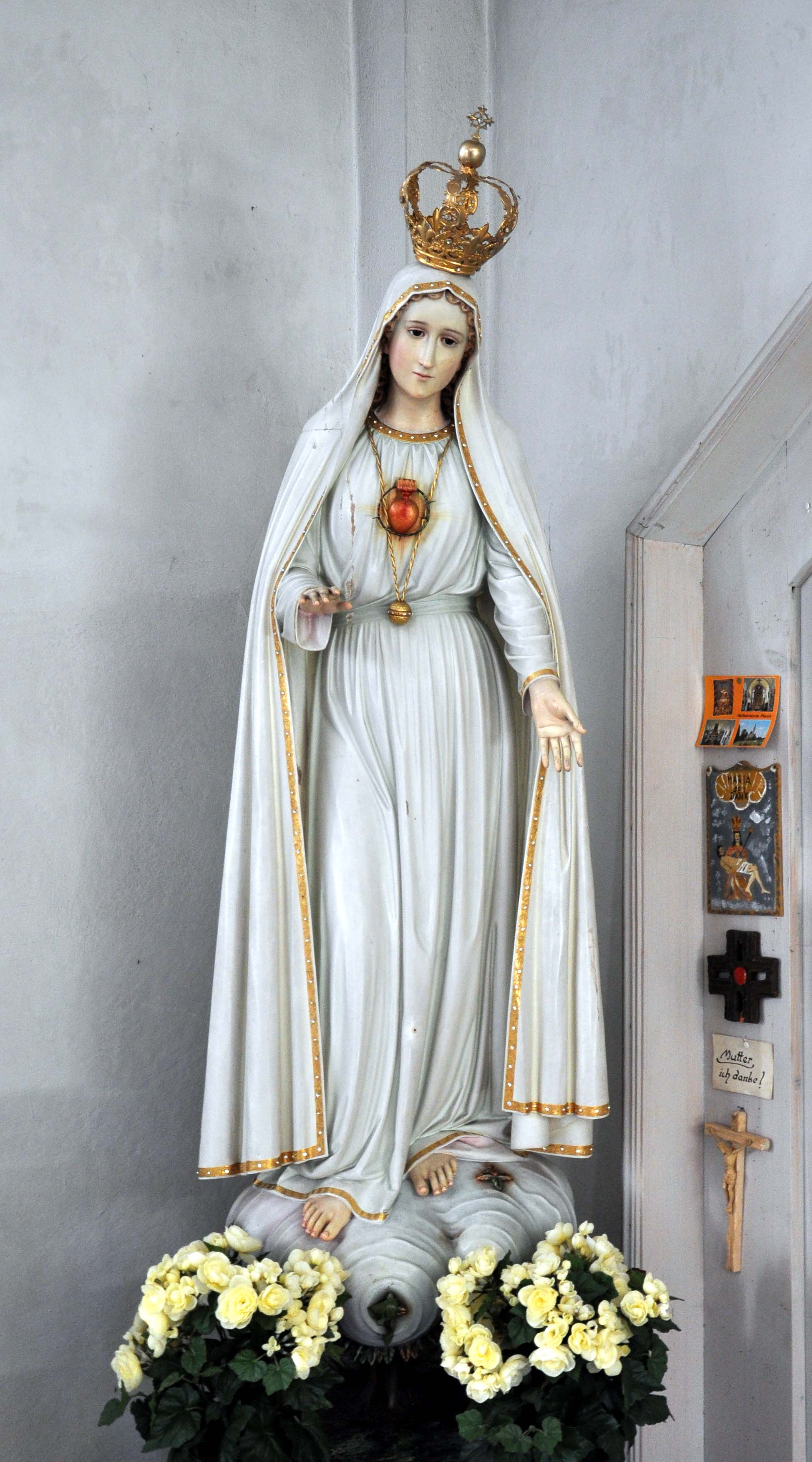 Pfarrich (municipality of Amtzell), Parish and Pilgrimage Church of the Nativity of the Virgin; St. Mary statue from Fatima, mid-20th century